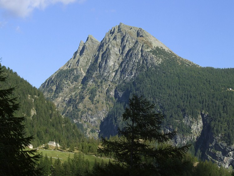 Seehorn Picture taken by user Idéfix , august 27, 2006